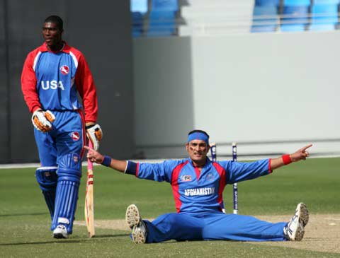 Hammed Hasan celebrates taking another American wicket.